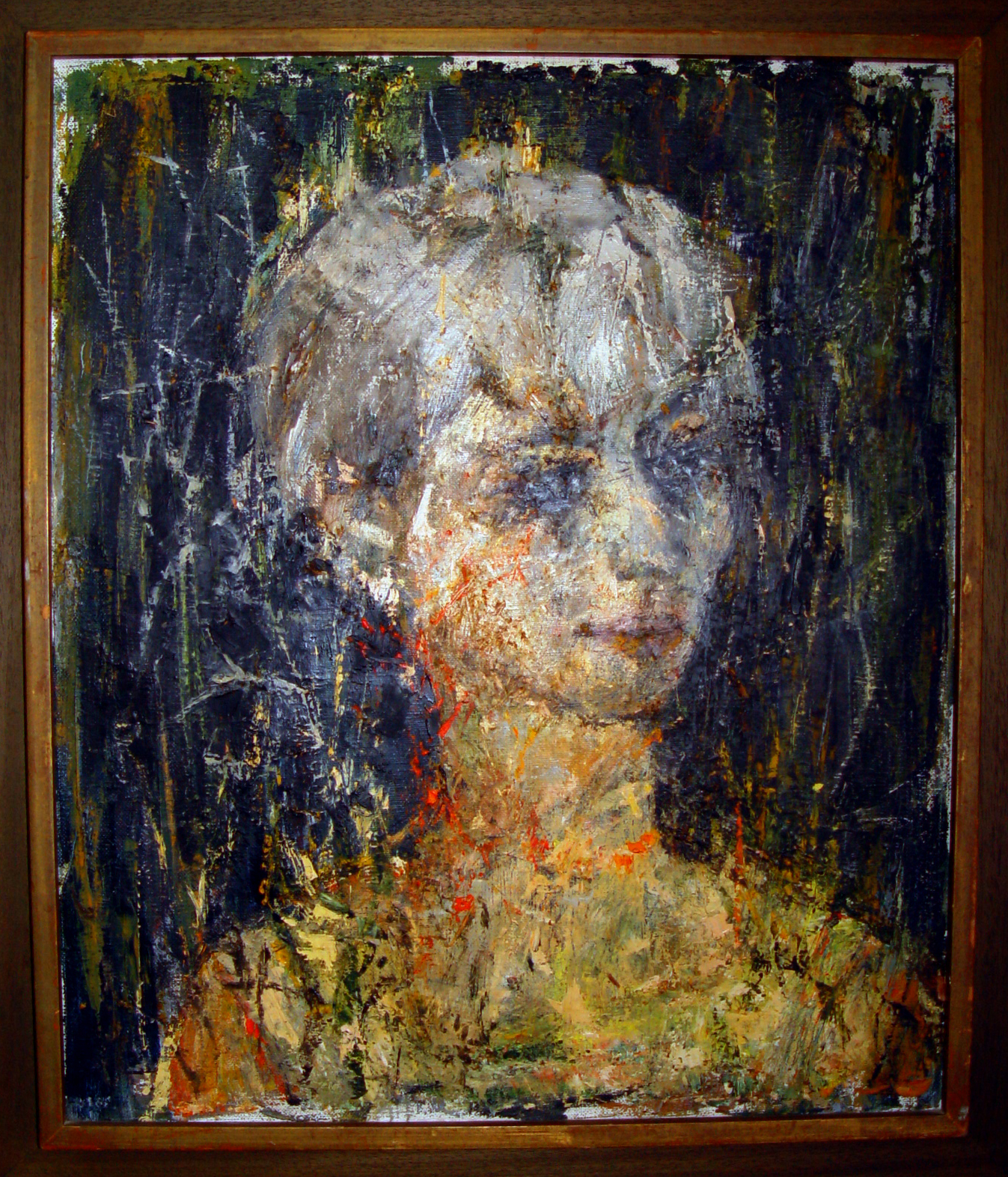 Portrait of P.T. (oil) by the Israeli painter Ruth Bamberger (1904-1976) Painting privately owned.